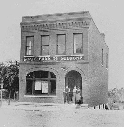 Building of the Cologne State Bank (Minnesota; ca. 1915)